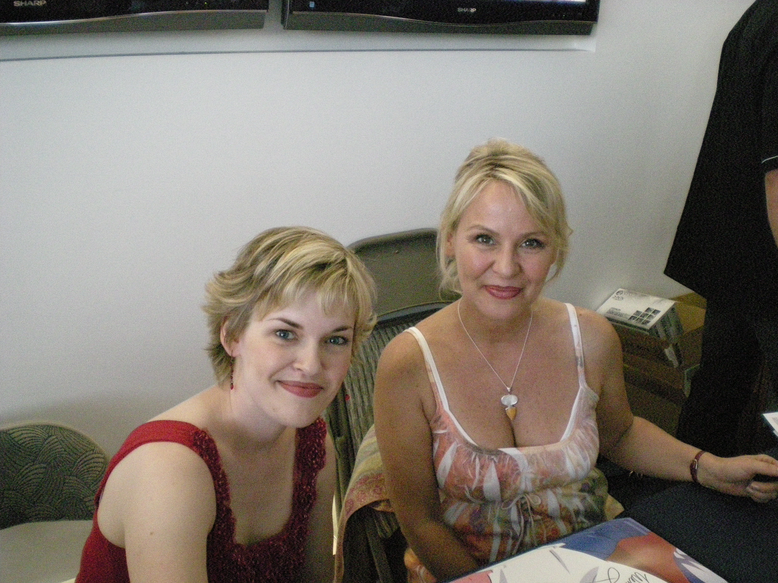 Kari Wahlgreen and Wendee Lee at the Lucky Star Premier in Little Tokyo on 26 Apr 2008.